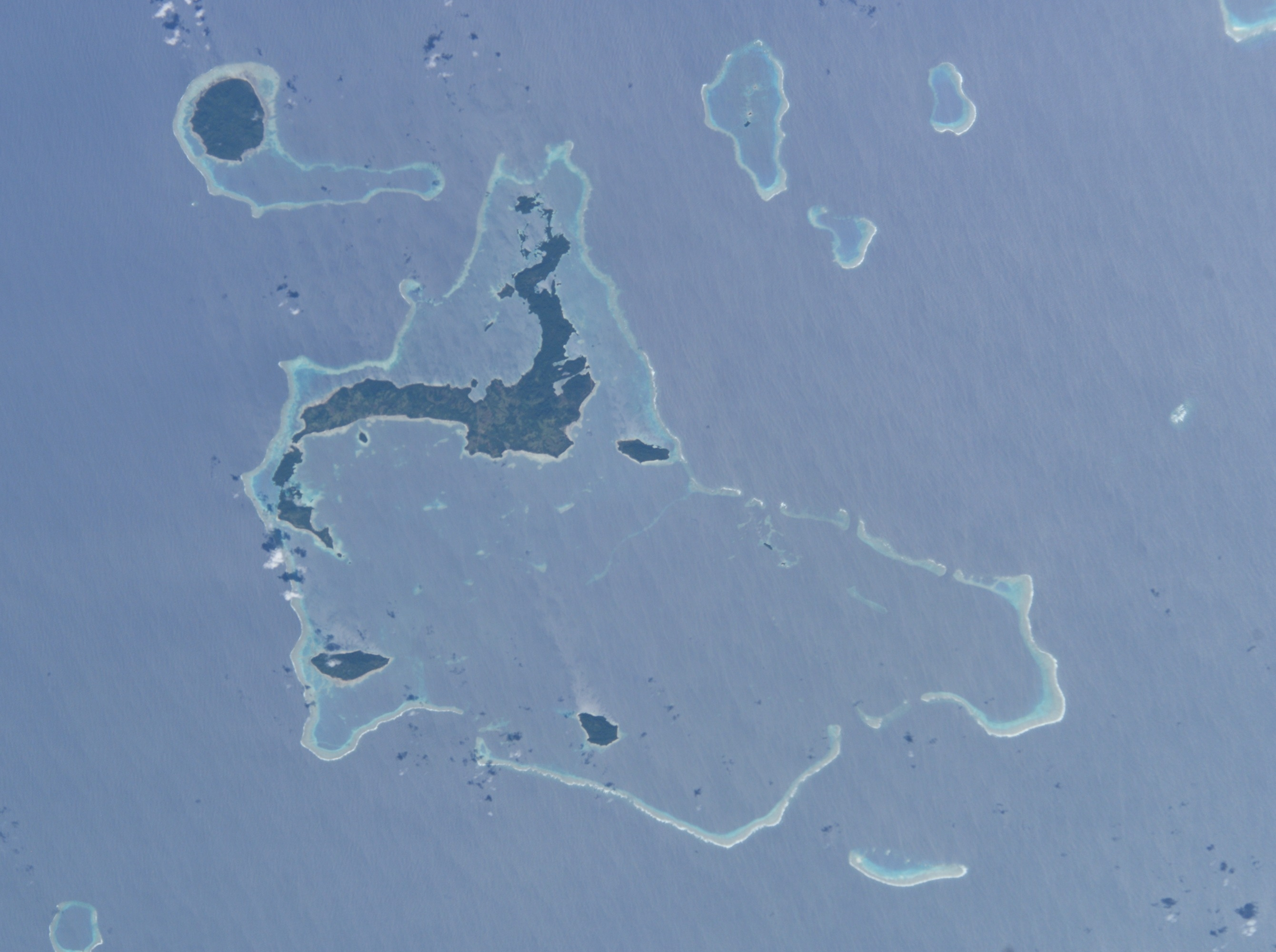 Vanua Balavu Island (Lau-Islands)